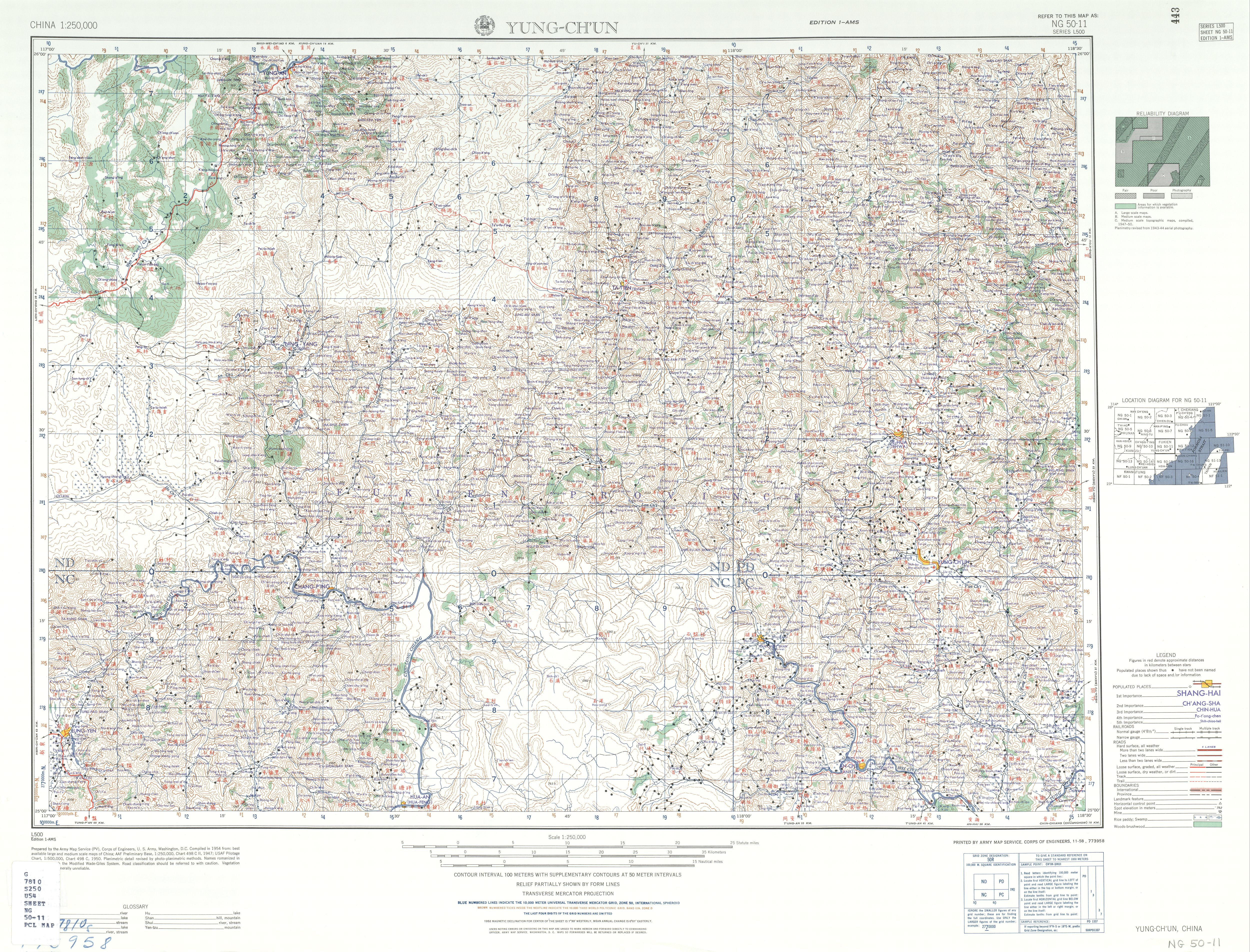 China AMS Topographic Maps